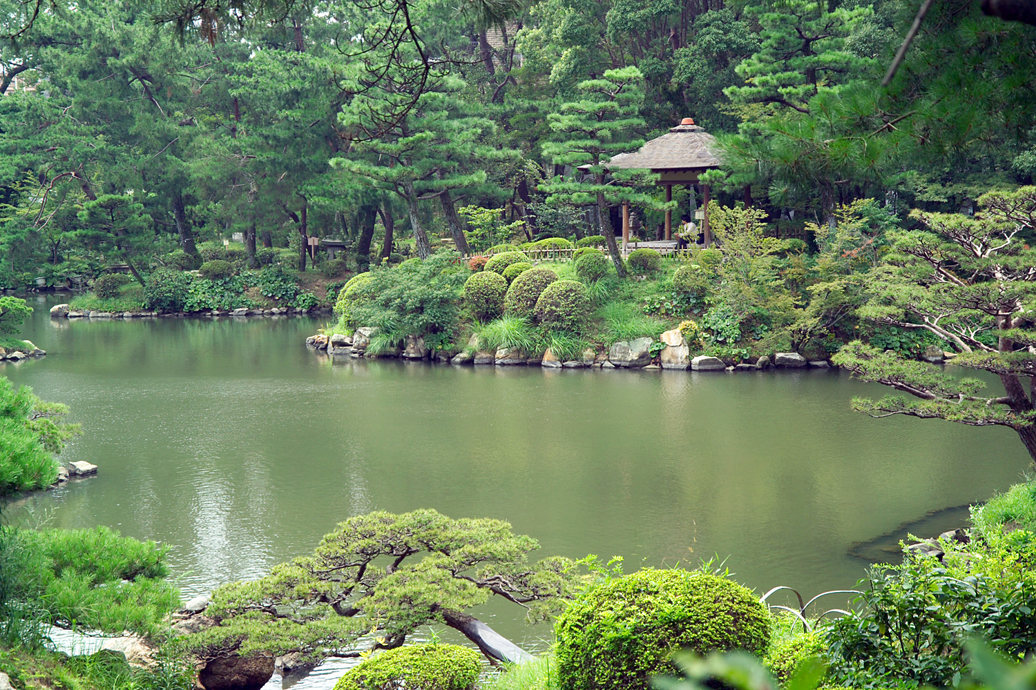 Shukkeien, a garden near Hiroshima Castle, Hiroshima, Japan. I took this photo and contribute my rights in the file to the public domain; people and organizations retain rights to images in it.